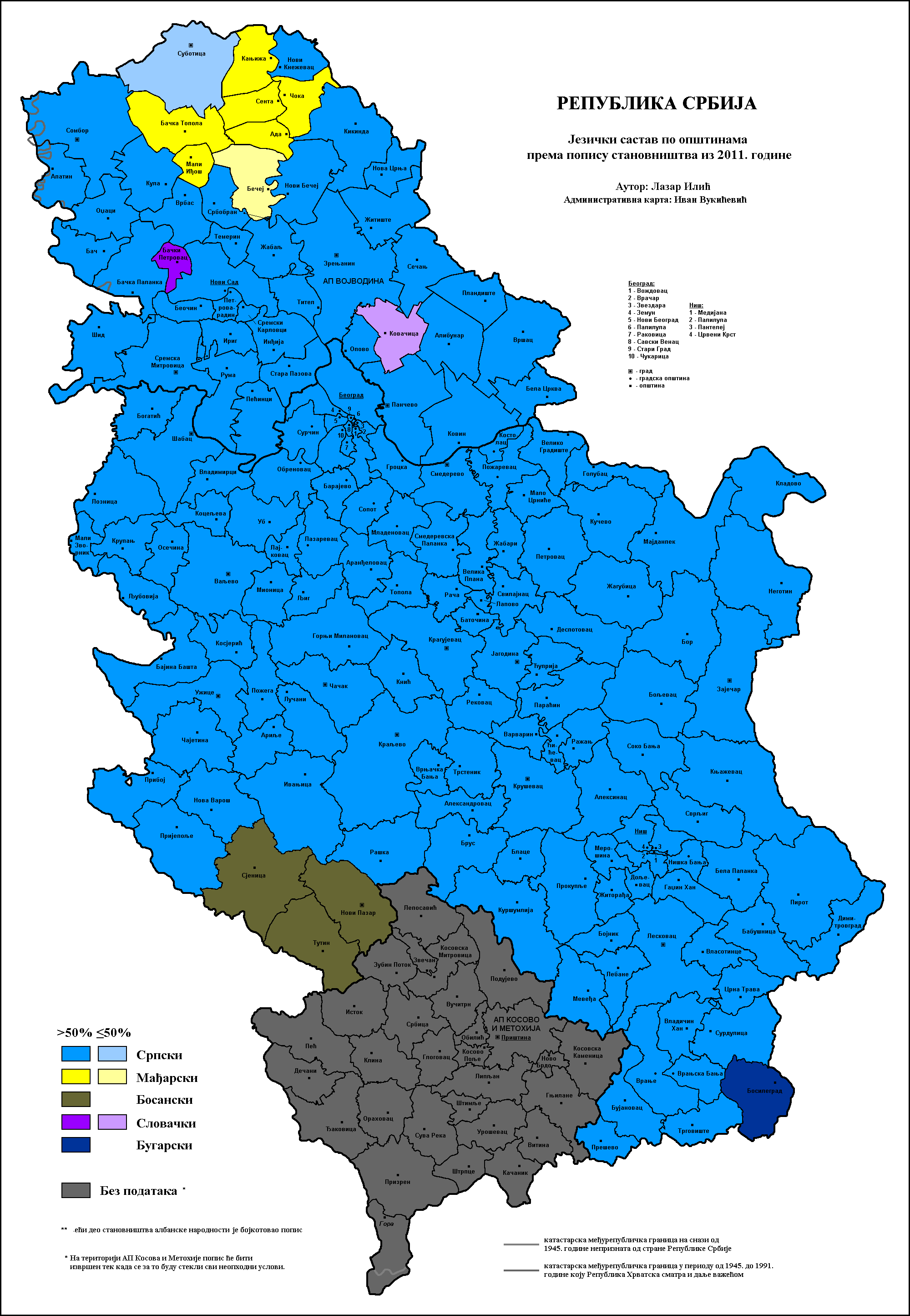 Linguistic map of Serbia, 2011 census